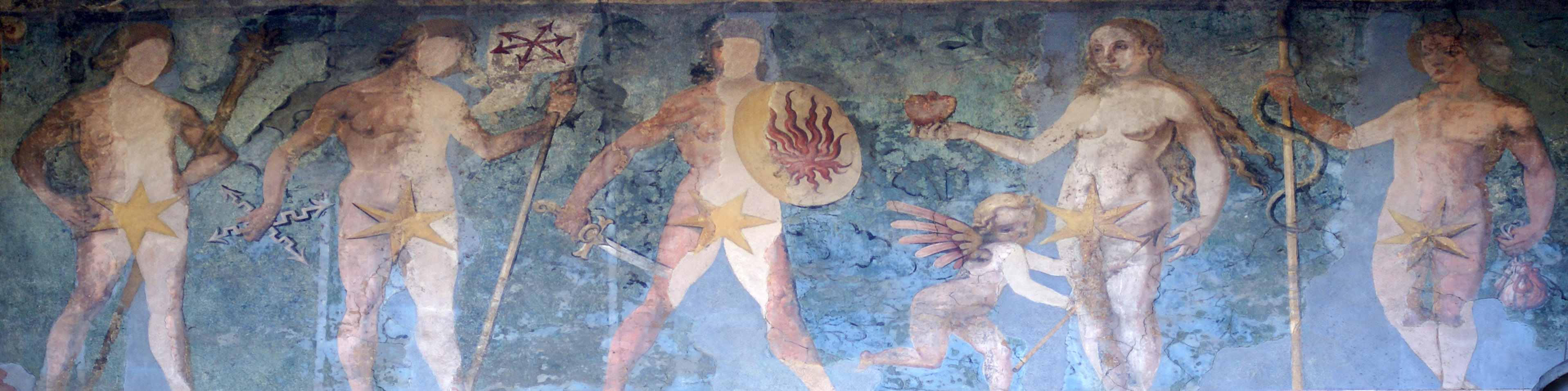 Zytglogge tower in Bern, Switzerland. East facade fresco showing the gods / planets Saturn, Jupiter, Mars, Venus and Mercury.